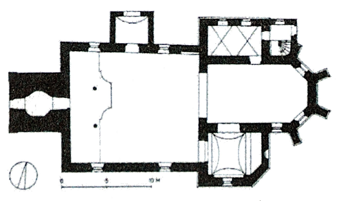 Catholic parish church hl. Martin, Abstetten, municipality of Sieghartskirchen, Lower Austria.